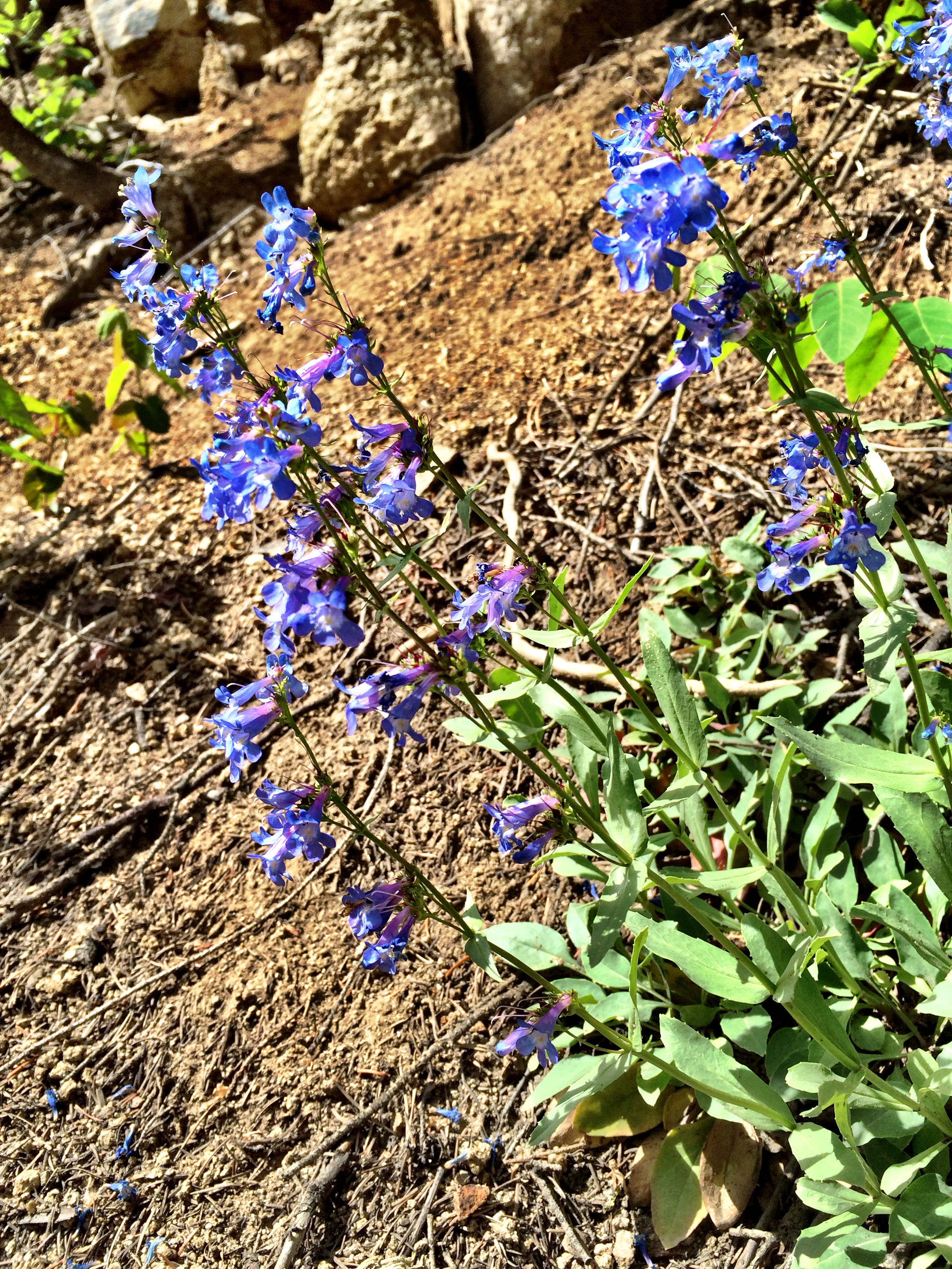 Penstemon albertinus. Once a member of the Scrophulariaceae or figwort family, but was recently moved to the Plantaginaceae or plantain family. Occurs on grasslands, rock outcrops, and dry, open forest, from valleys to lower subalpine zones.